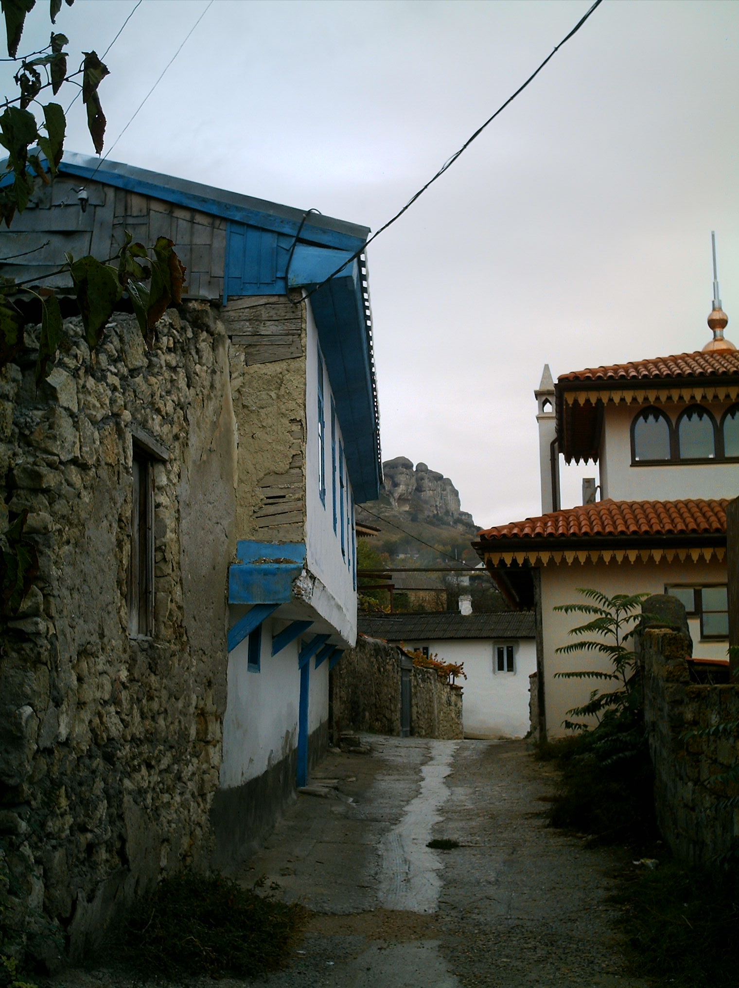 A street in the Bakhchisaray's Old Town